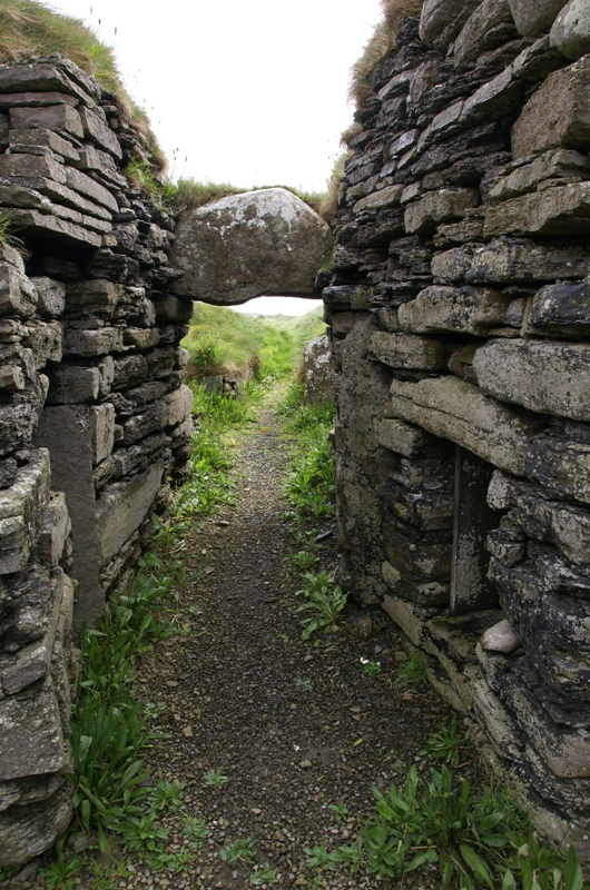 Burroughston Broch, Shapinsay, Orkney, Scotland. Entrance passage from the west.